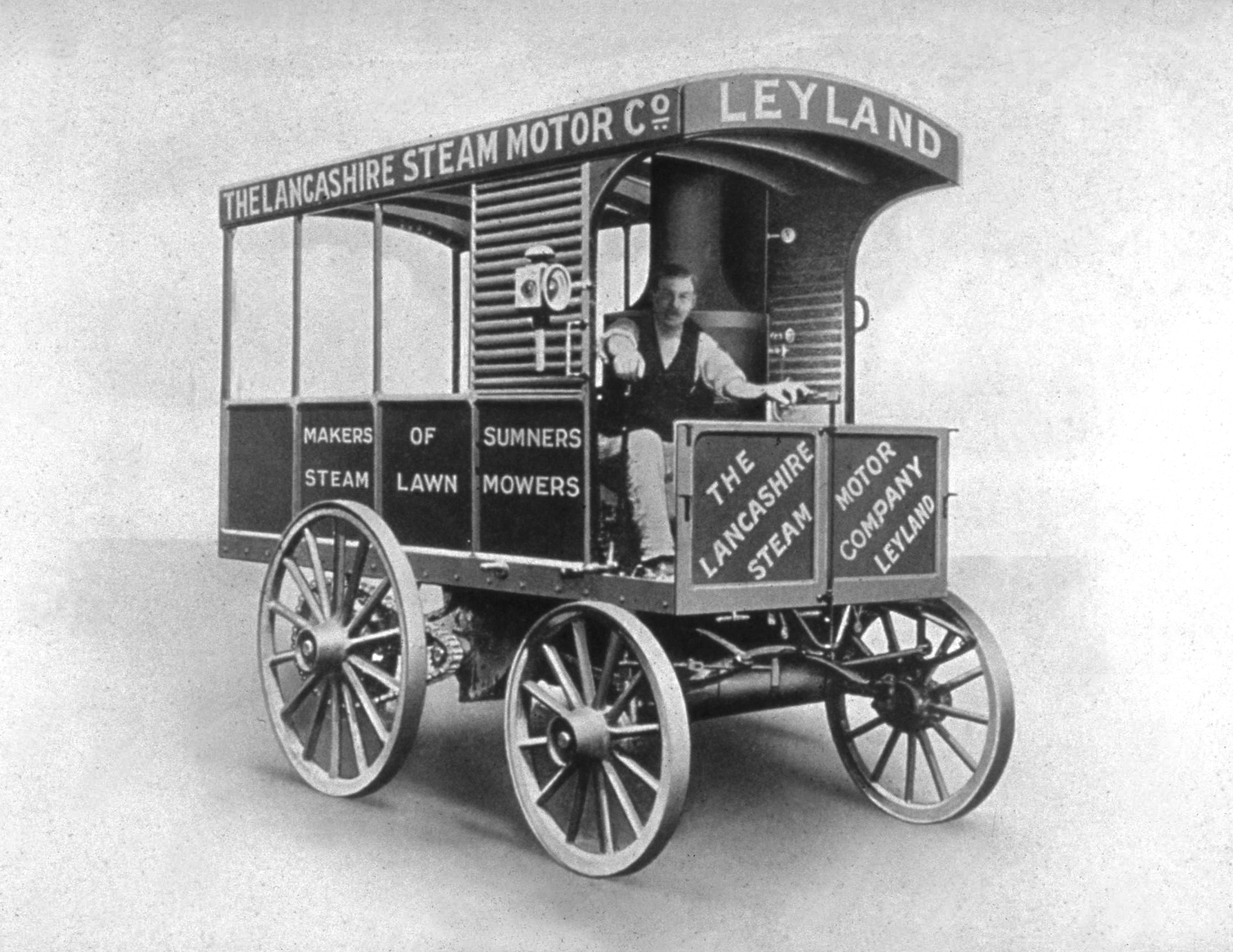 A 1896 Lancashire Steam Motor Co steam open sided van